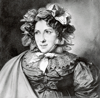 Caroline von Humboldt (1766–1829), Lithography